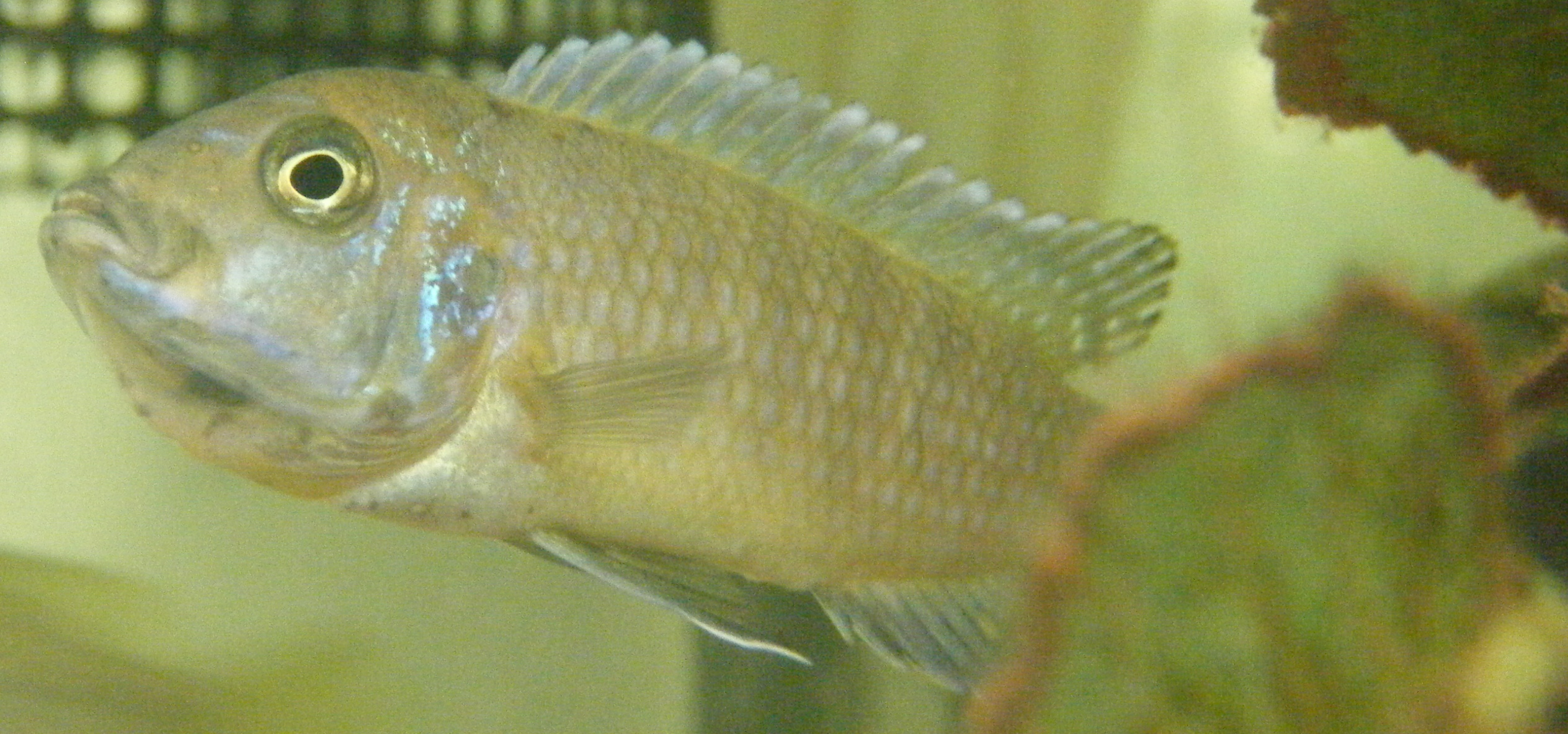 wild caught female (brooding) from Likoma Island